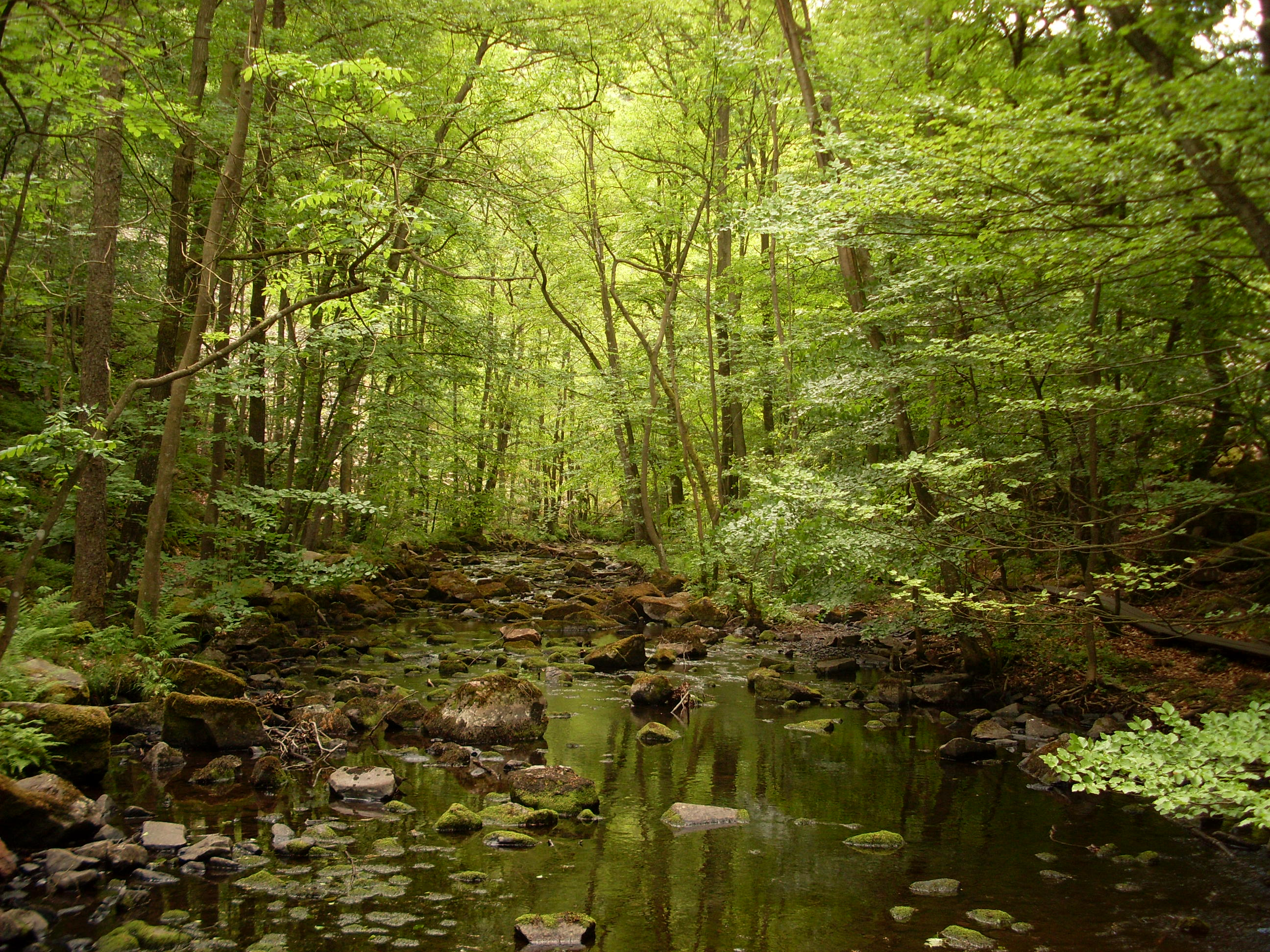 Skäralid, part of the national park Söderåsen in Skåne, Sweden